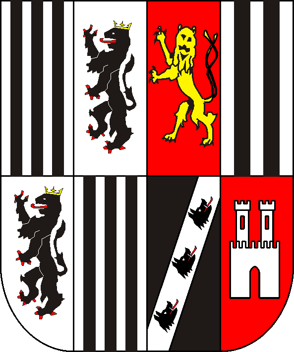 coats of arms of Sayn-Kirchberg (extincted in 1753) A: bourgraviat of Kirchberg; B: county of Sayn; B1: county of Sayn; B2: county of Wittgenstein; B3: lordship of Freusberg; B4: lordship of Homburg